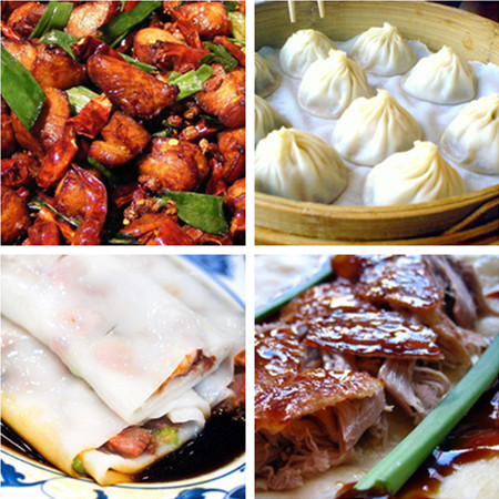 Chinese foods from different regional cuisines